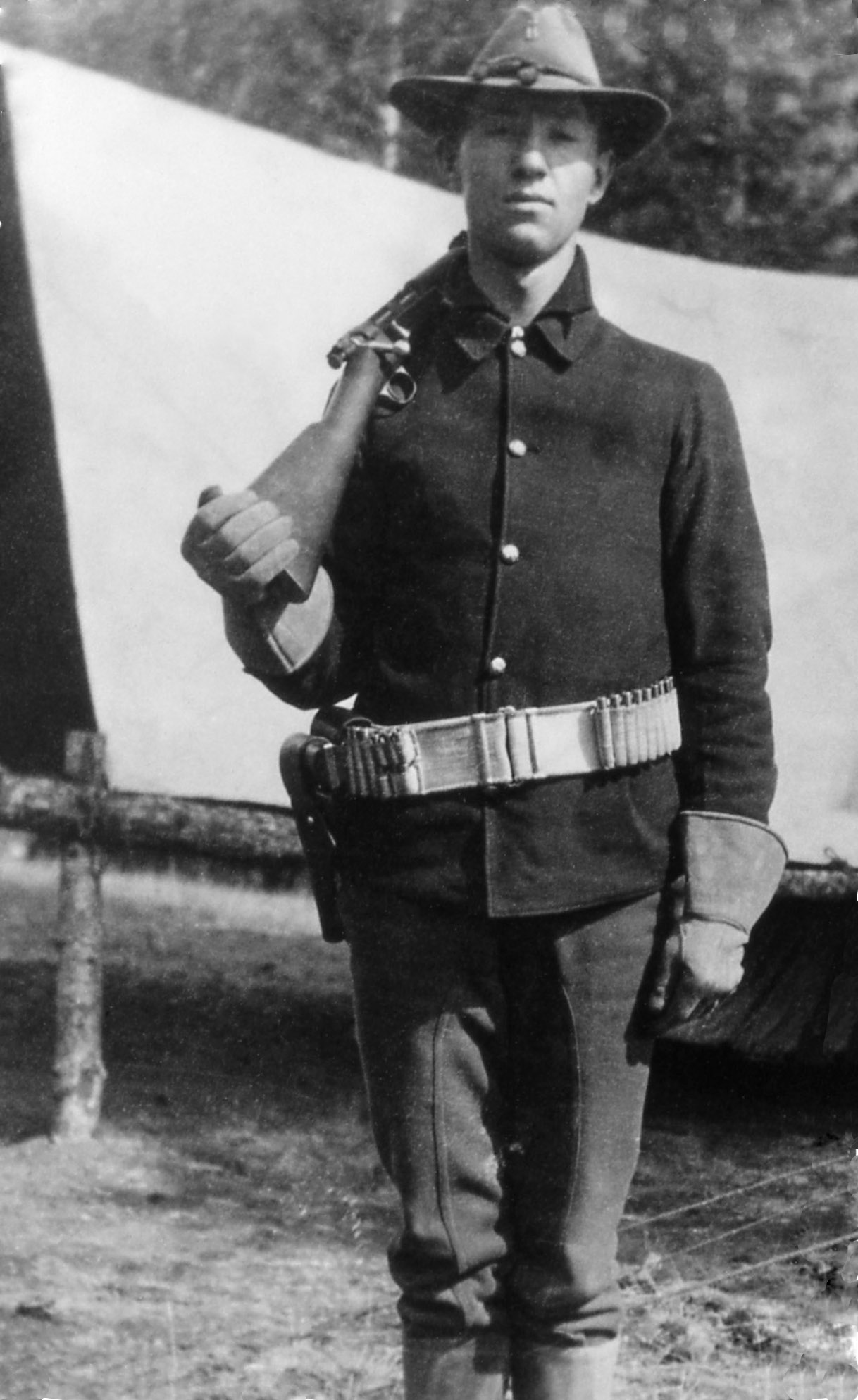 U.S. Army Cavalry soldier on guard duty at Fort Yellowstone during visit of President Theodore Roosevelt to Yellowstone National Park in 1903